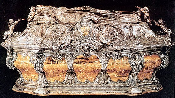 Silver coffin of Saint Ermengol, at Seu d'Urgell cathedral; work by Pere Llopart, silversmith from Barcelona